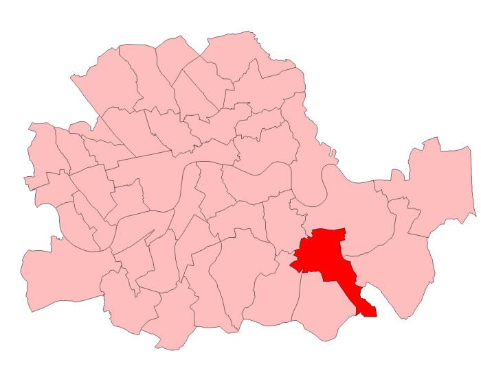 A map of Lewisham North constituency within the London County Council area, as it existed from 1950 to 1974.